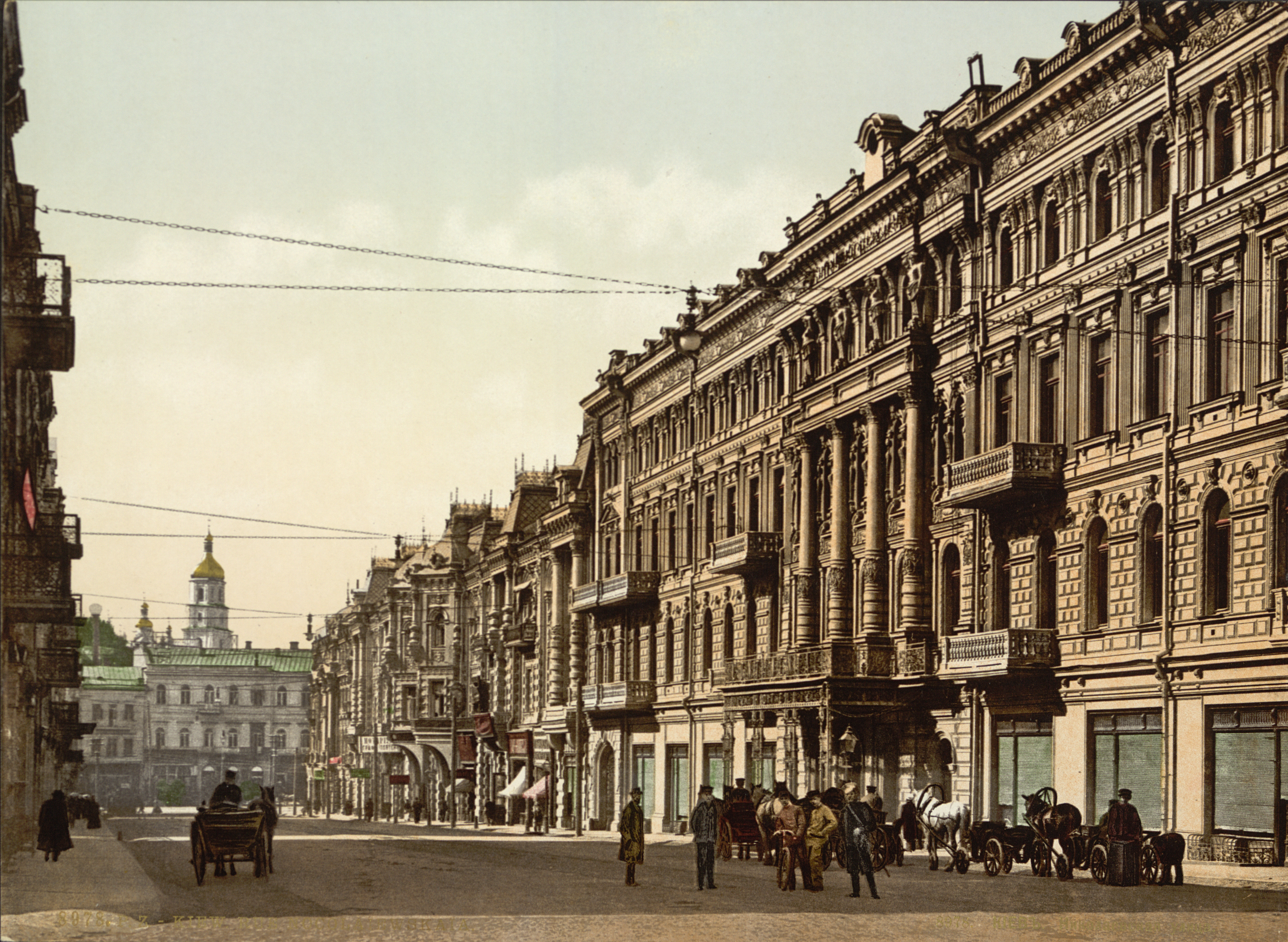 Nikolayevskaya street and hotel "Continental" in Kiev, Russian Empire (now Ukraine). Print no. "8978". Title from the Detroit Publishing Co., catalogue J--foreign section, Detroit, Mich. : Detroit Publishing Company, 1905. Image with additional color processing.